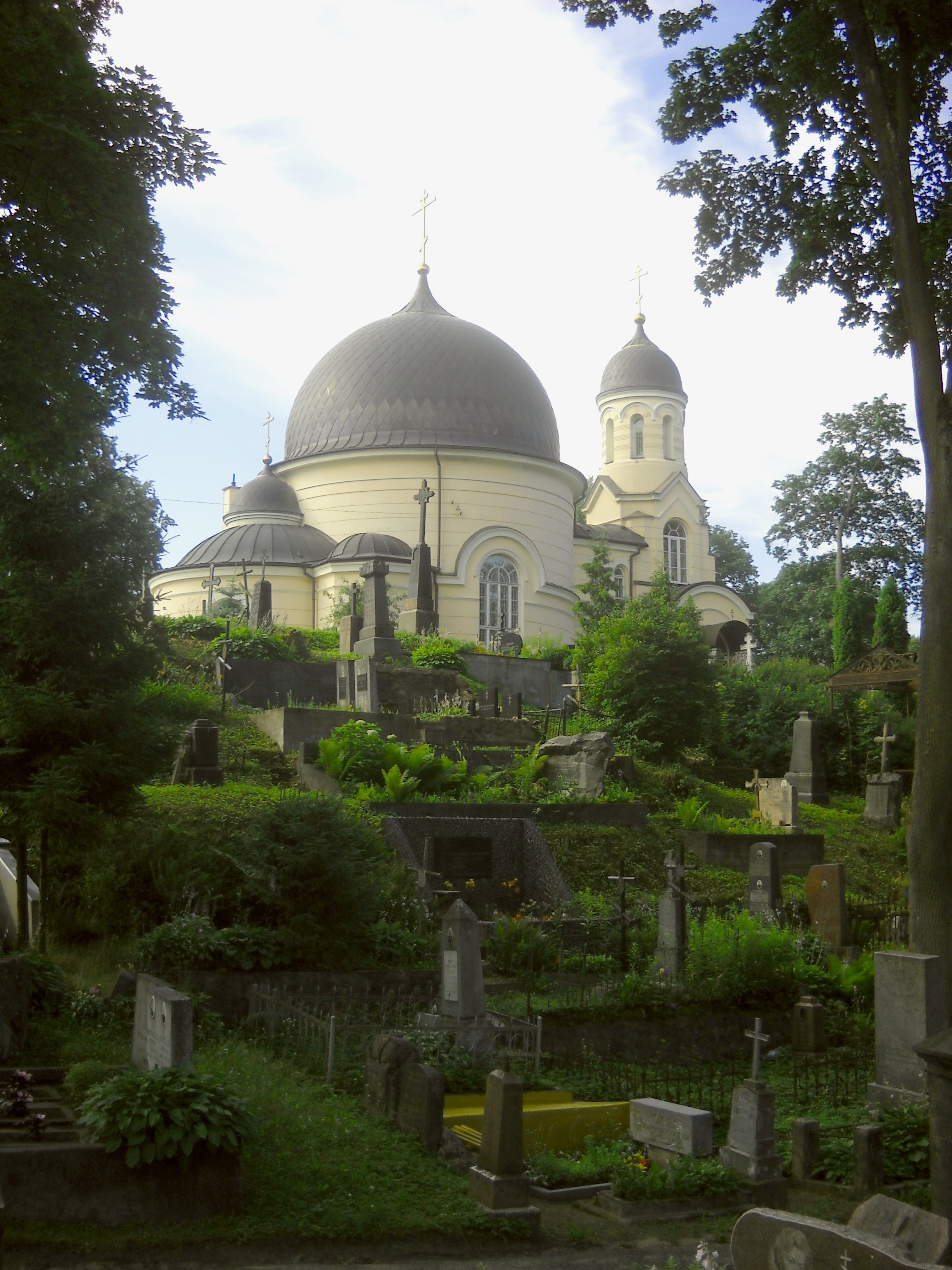 Church of St. Euphrosine of Polotsk in Vilnius